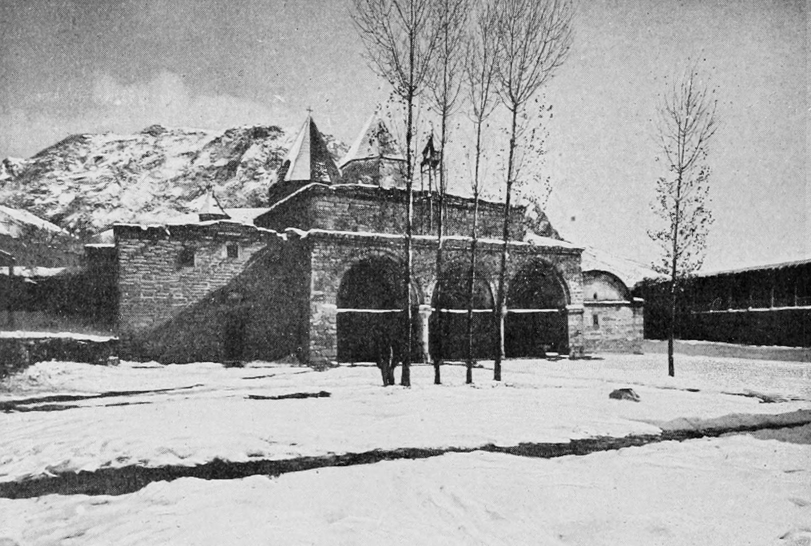 Monastery of Varagavank, Turkey